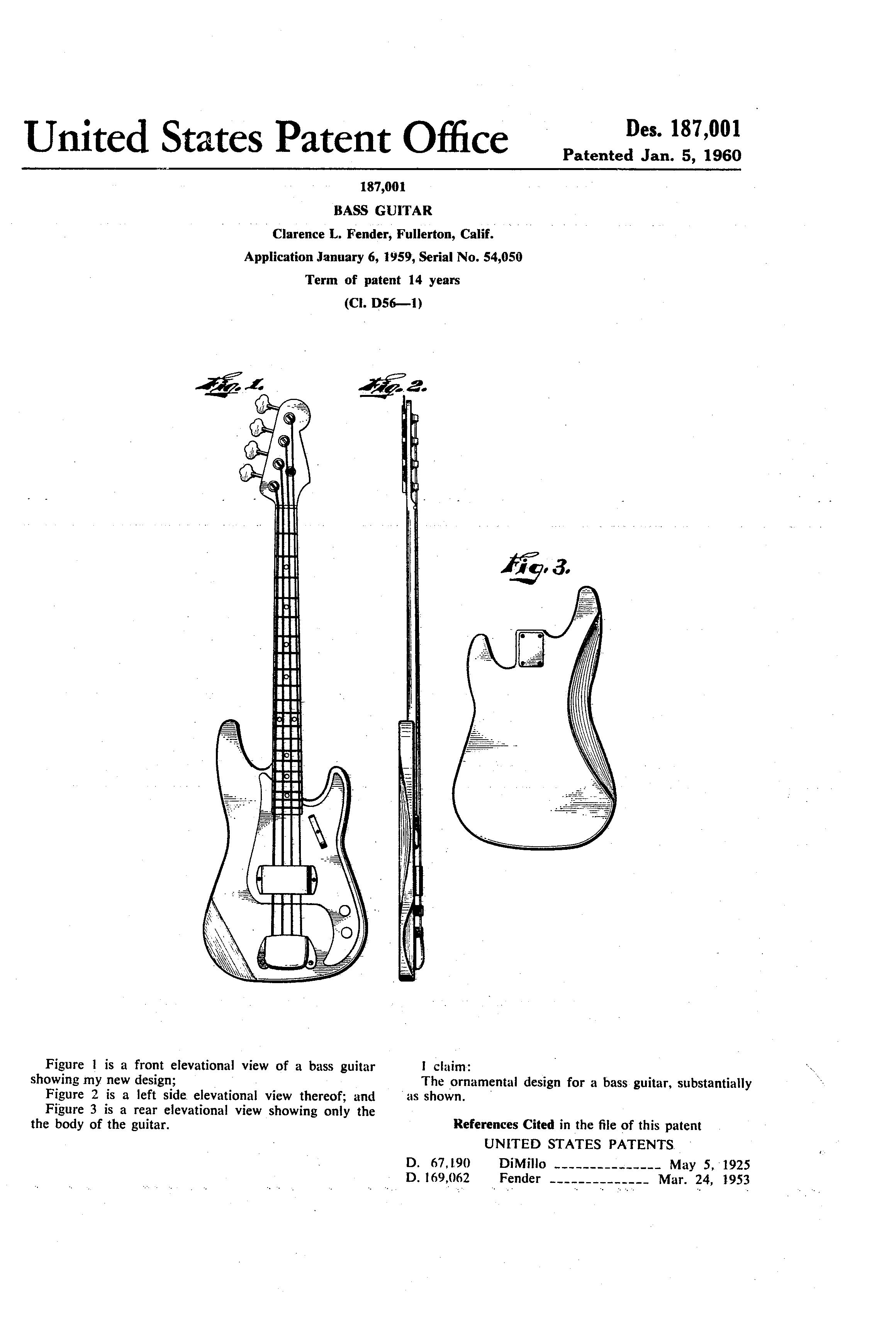 Design patent 187,001 for Fender bass guitar.